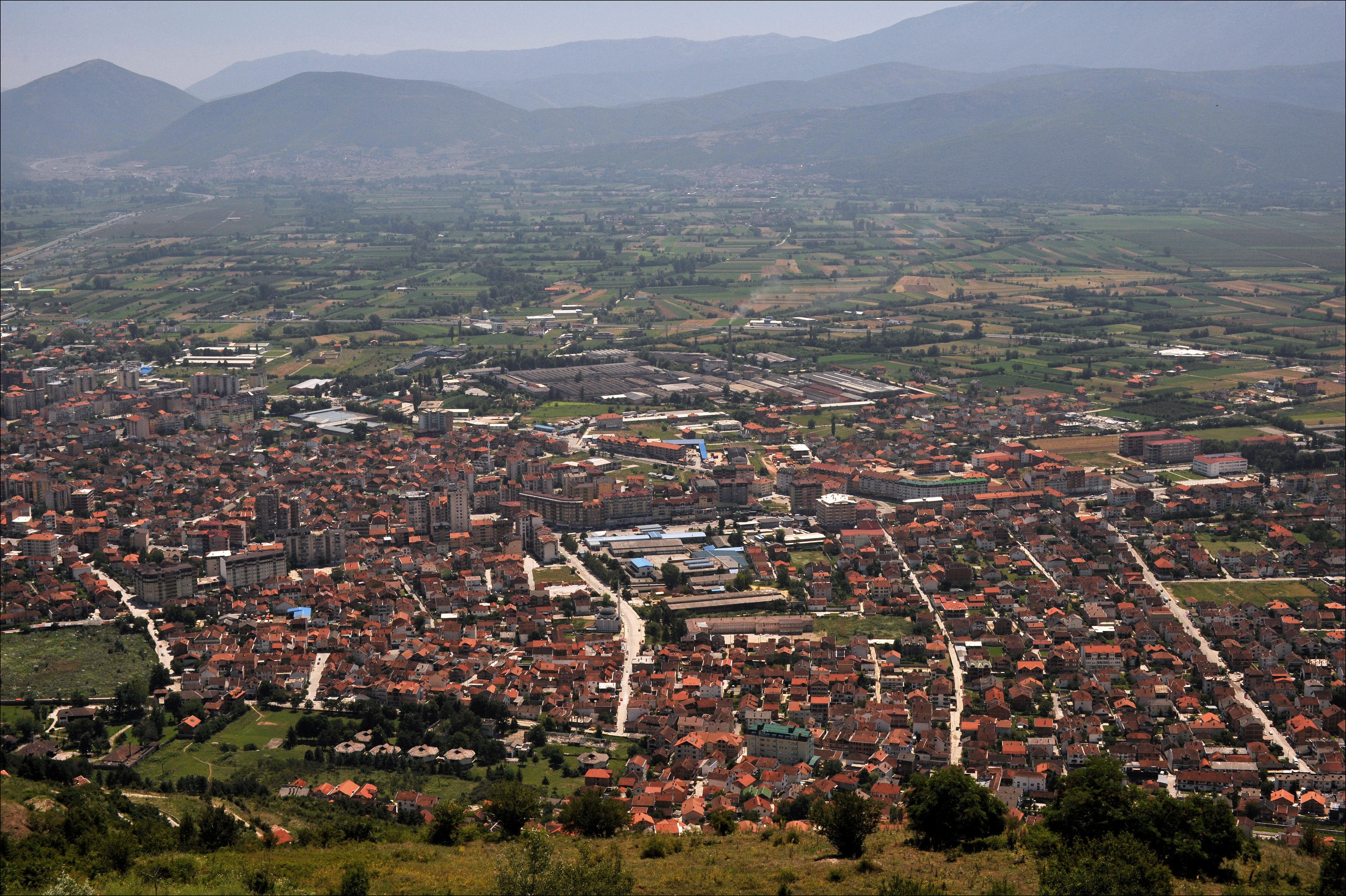 Tetovo, Republic of Macedonia view from the mountains.